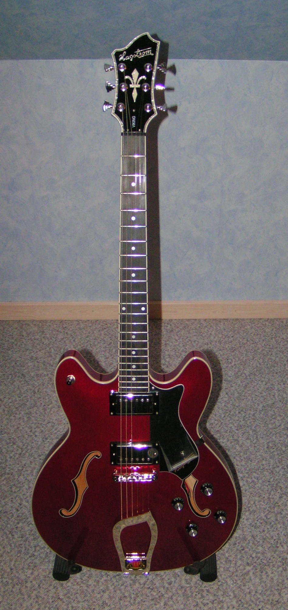 Hagström Viking, a semi-acoustic electric guitar.